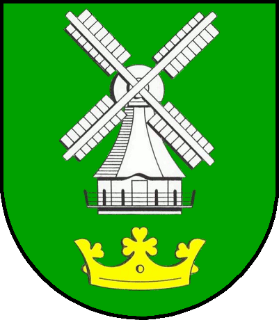 Coat of arms of the municipality Eddelak in Schleswig-Holstein, Germany.